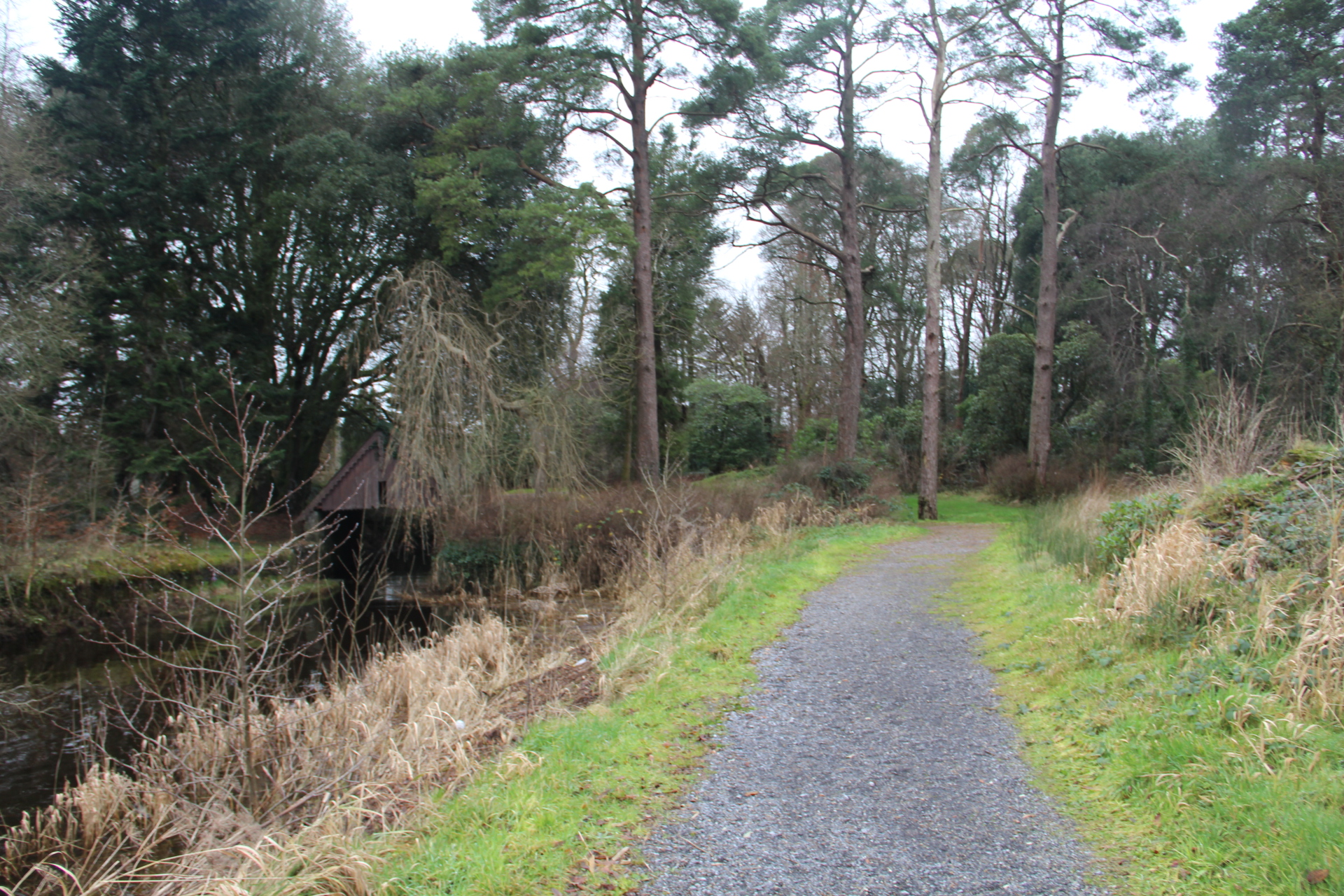 The boathouse between the crannóg and Mac Raghnaill Castle.